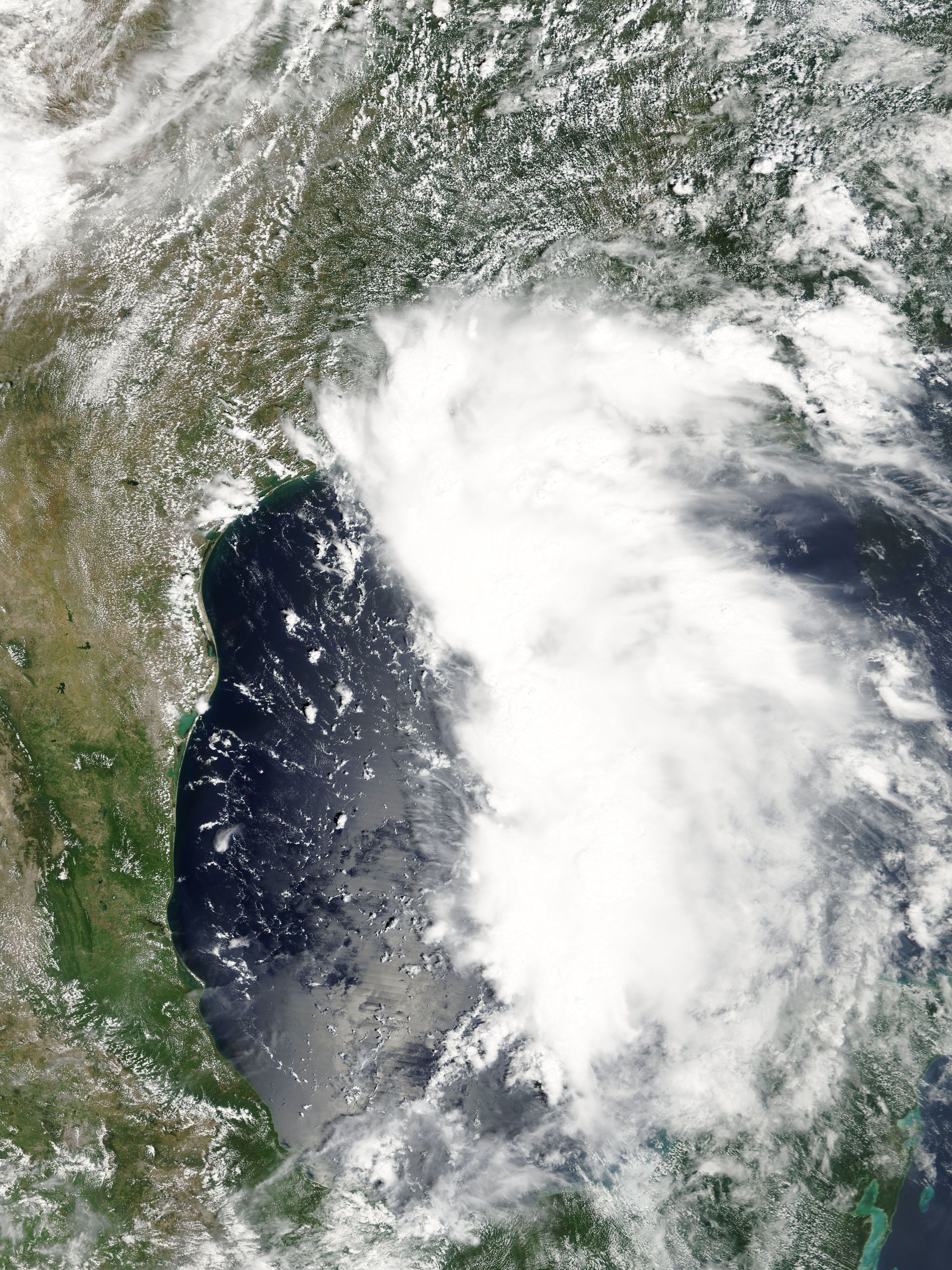 Tropical Storm Grace of 2004 a few hours before forming.